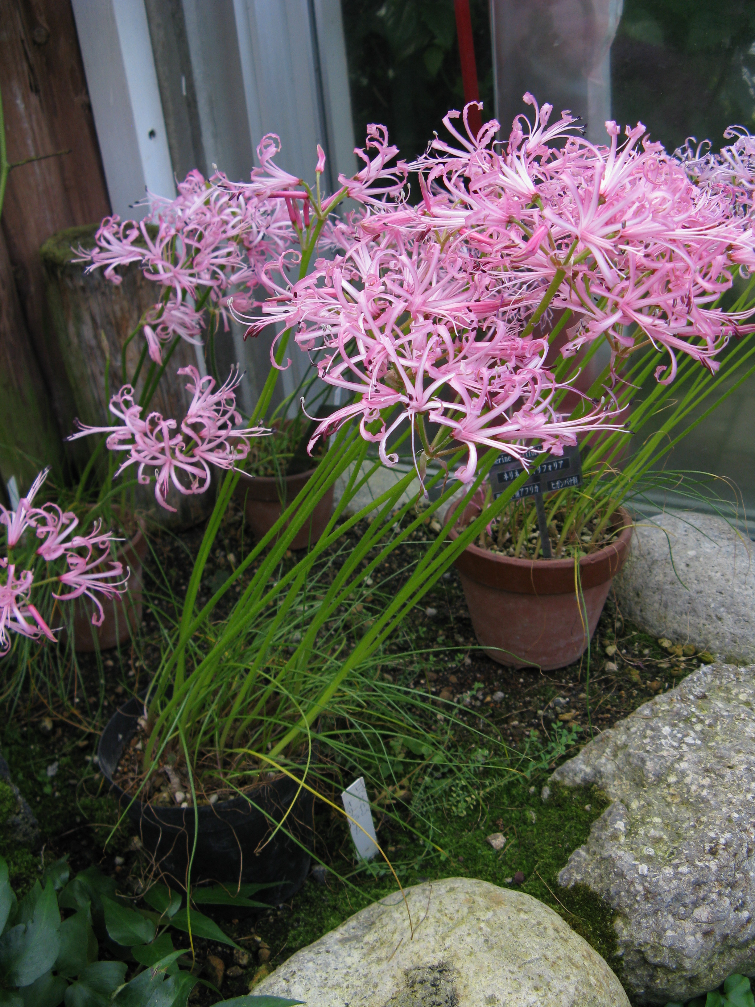 Scientific name Nerine filifolia Place:Osaka Prefectural Flower Garden,Osaka,Japan